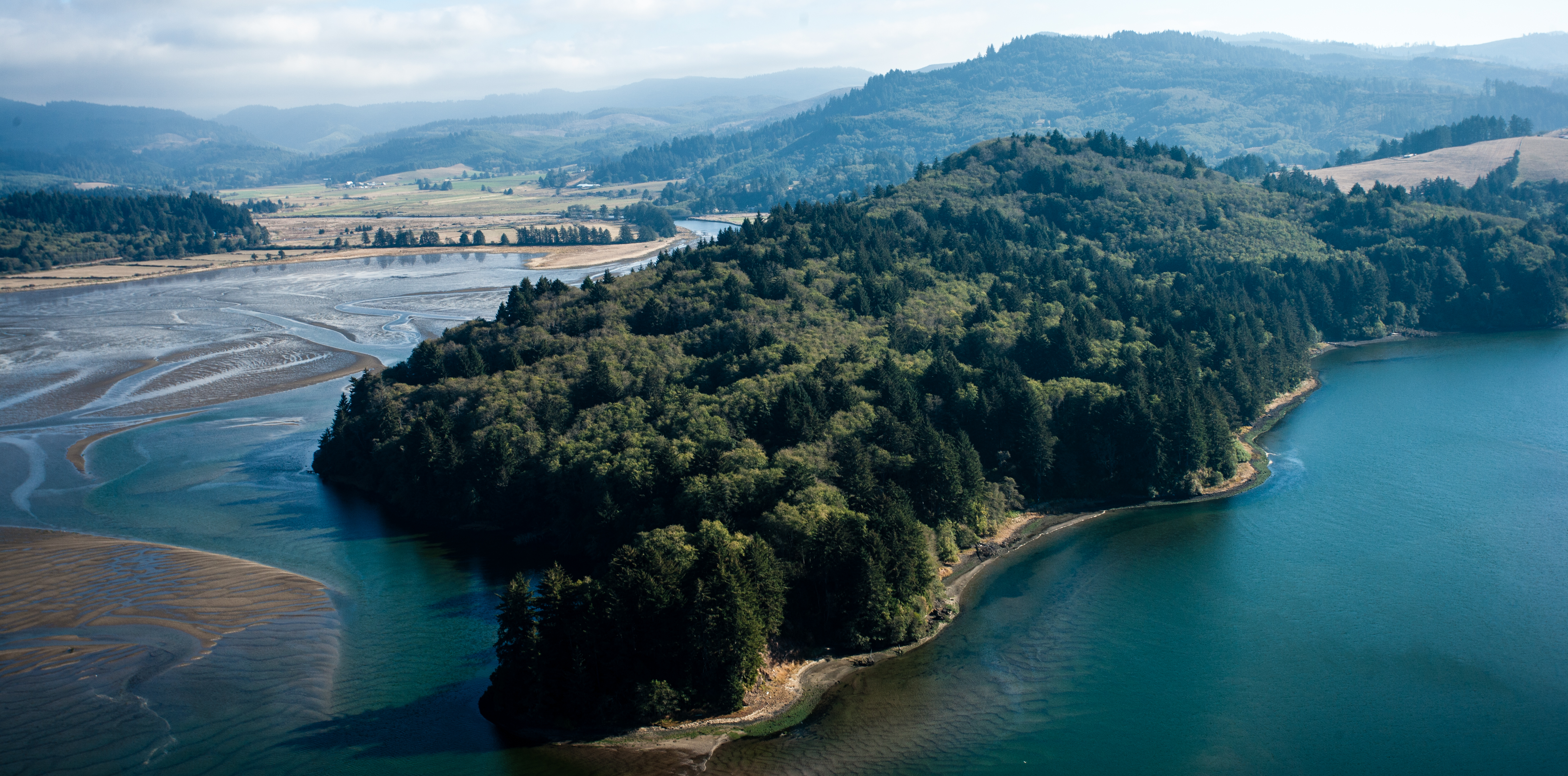 Long a Jesuit retreat, this 100-plus-acre parcel became a part of the Nestucca Bay National Wildlife Refuge on September 6, 2013. Learn more about the Refuge